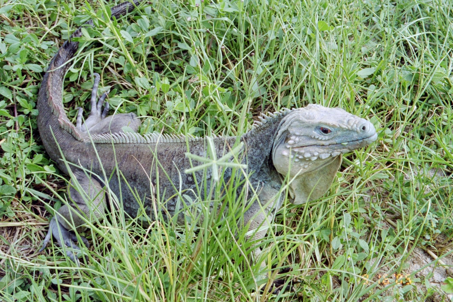 Cayman Blue Iguana in the Botonical Park, 2005.